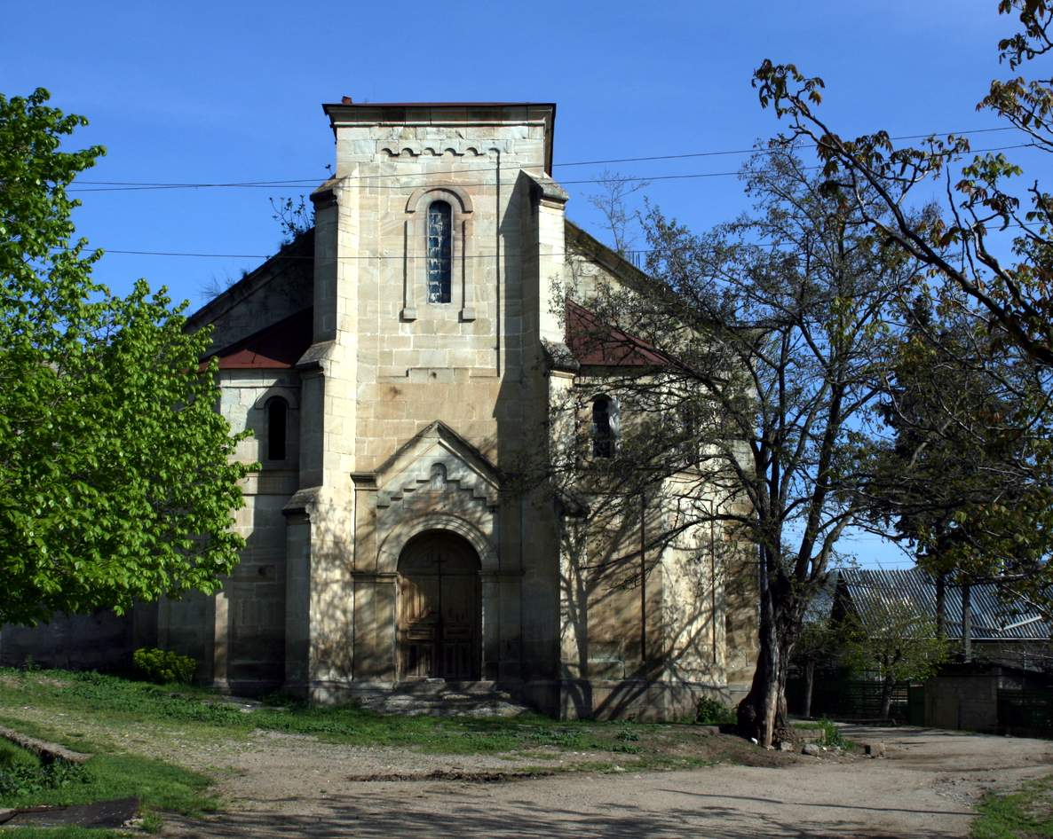 Former German church in Asureti (former Elisabethal), built in 1871